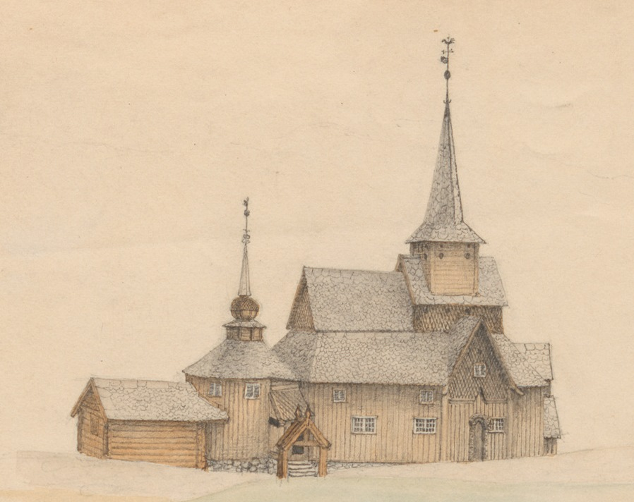 Ål stavkirke tegnet av Georg Bull i 1855. Fra Kulturminnebilder.no.